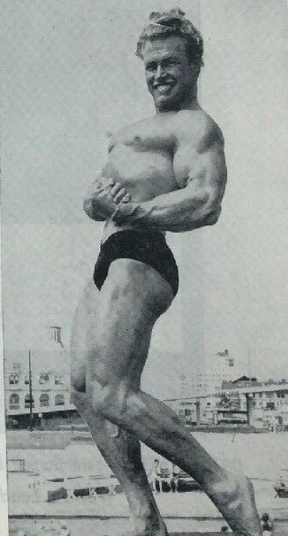 Roy Hilligen in 1950, South African bodybuilder and vegetarian.